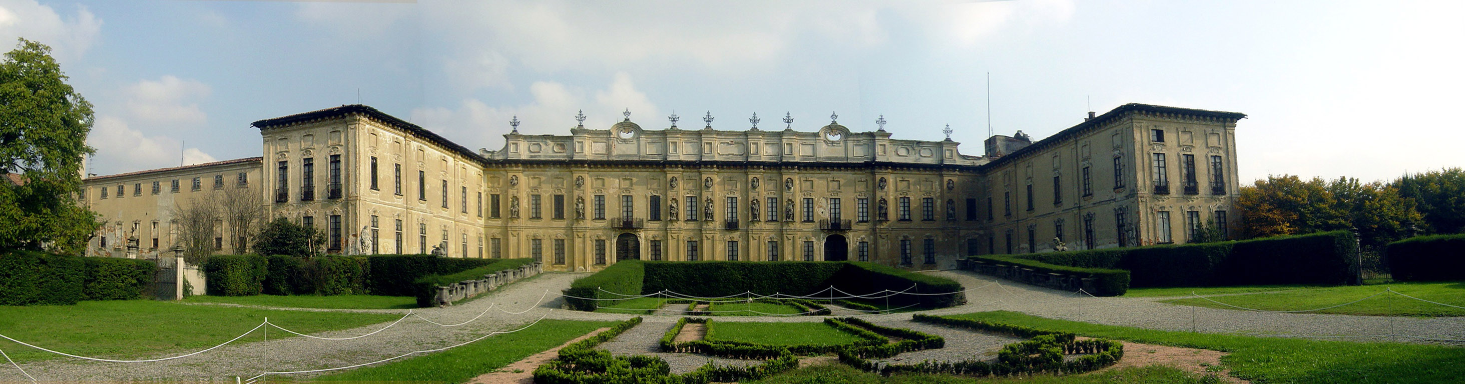 Villa Arconati in Castellazzo di Bollate (Milan province) - Italy - West front and side blocks